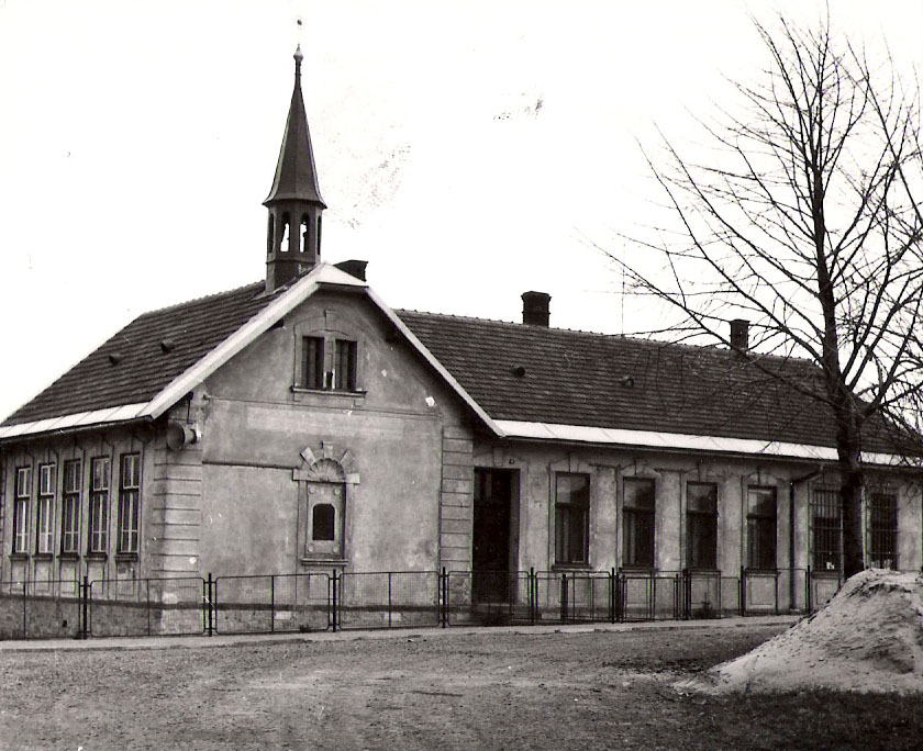 Former Polish school in Kojkovice (Kojkowice), Zaolzie, Czechoslovakia